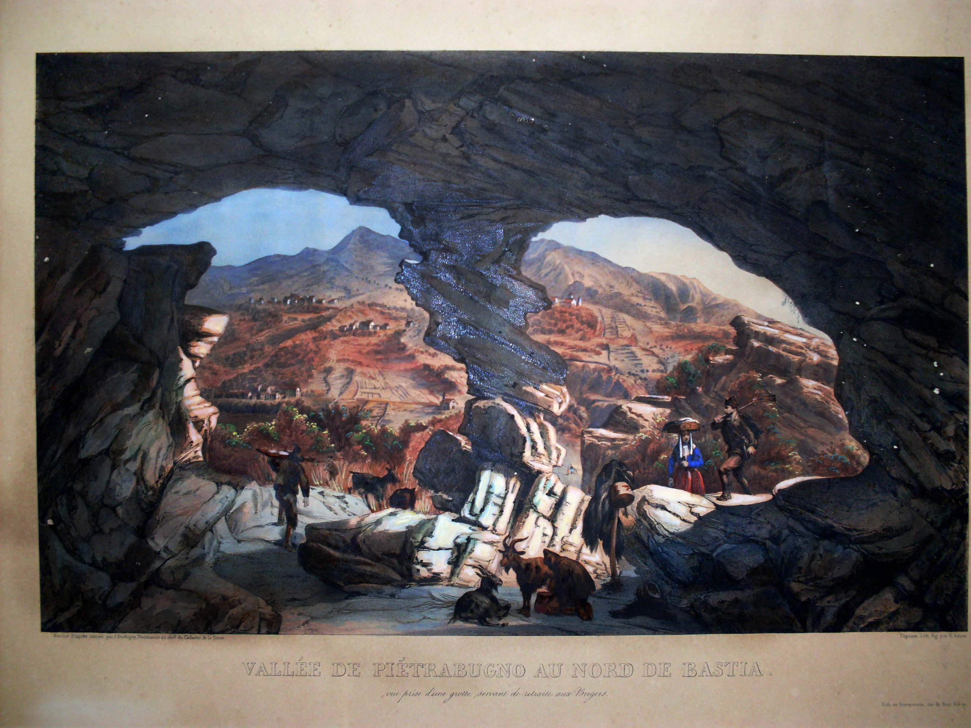 Lithography by J.Daubigny